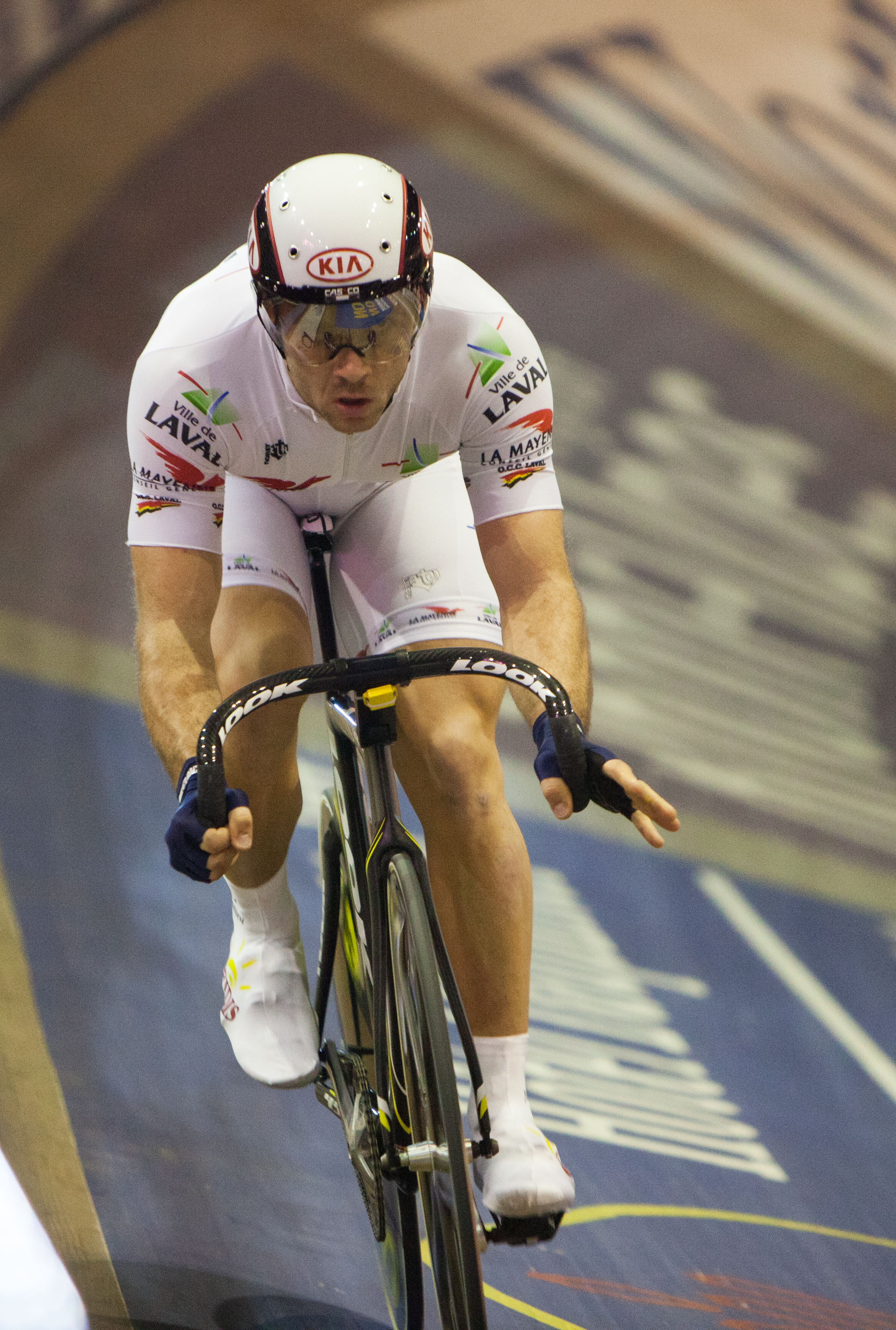 The making of this document was supported by Wikimedia CH. (Submit your project!) For all the files concerned, please see the category Supported by Wikimedia CH. Six jours de Grenoble 2011